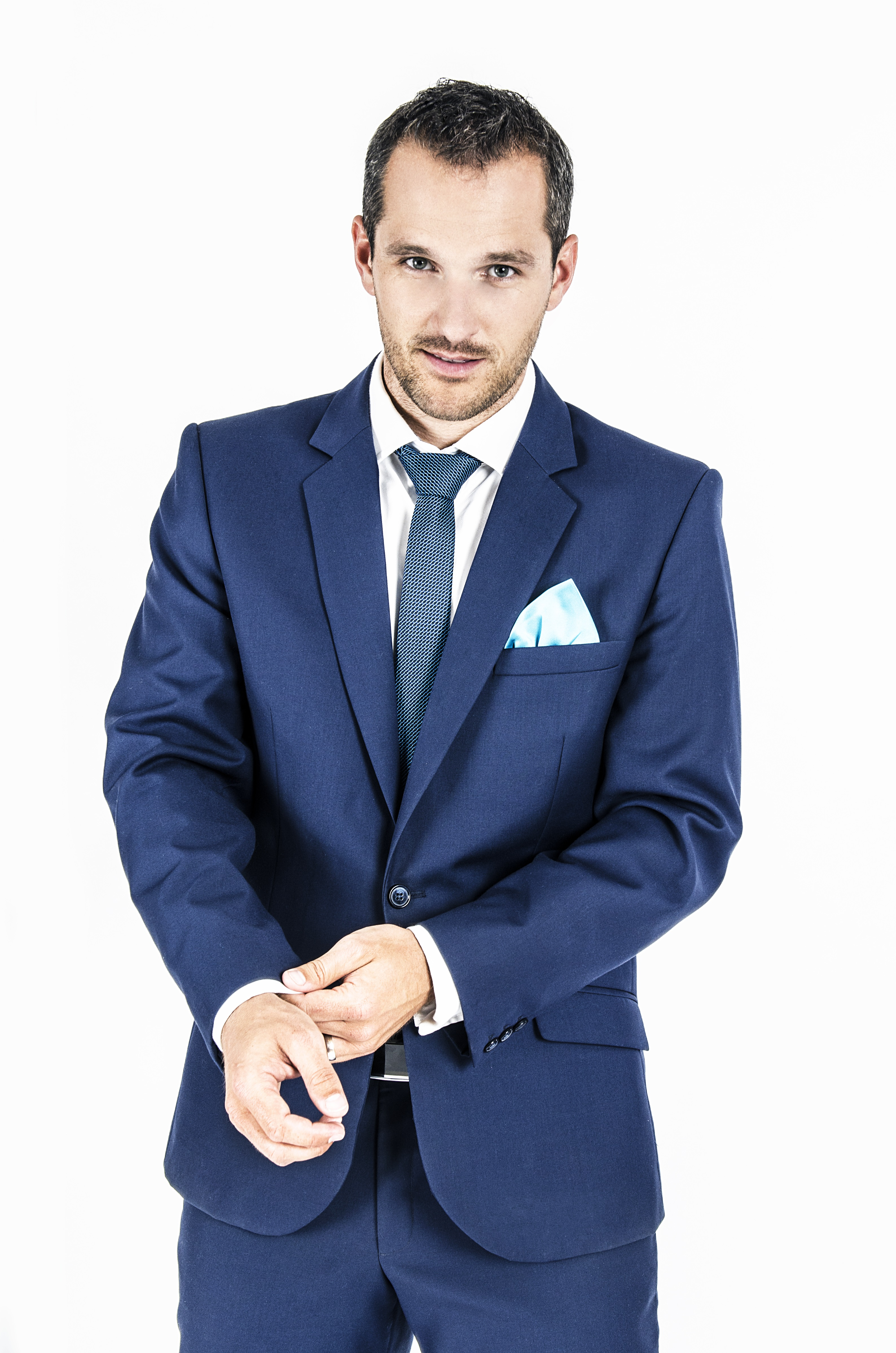 Official promo photo of moderator Míra Hejdy.